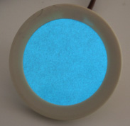 Electroluminescent nightlight, dating from 1960, using 80mW of power at 230V